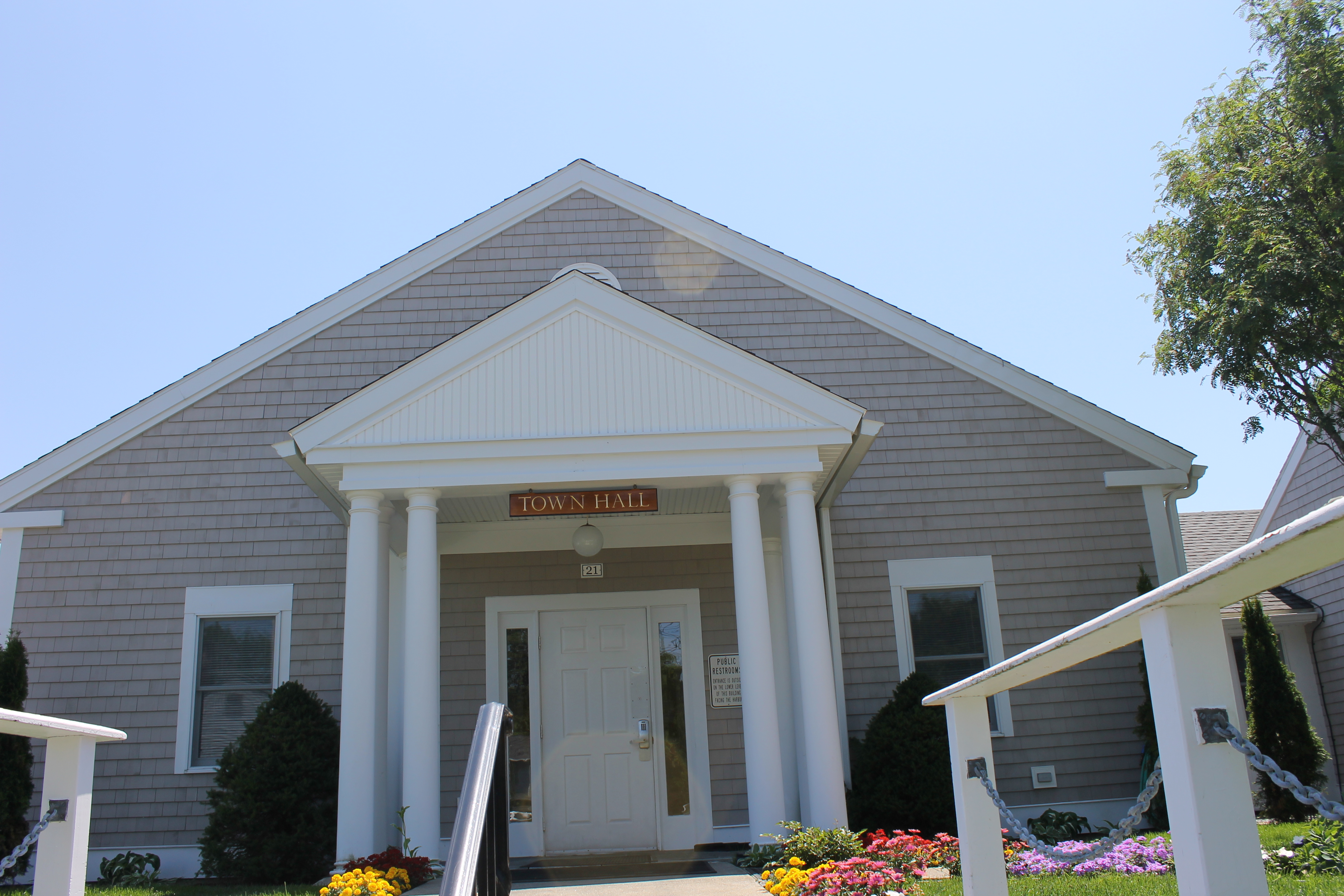 I took photo of Mount Desert Town Hall in Mount Desert, ME, with Canon camera.